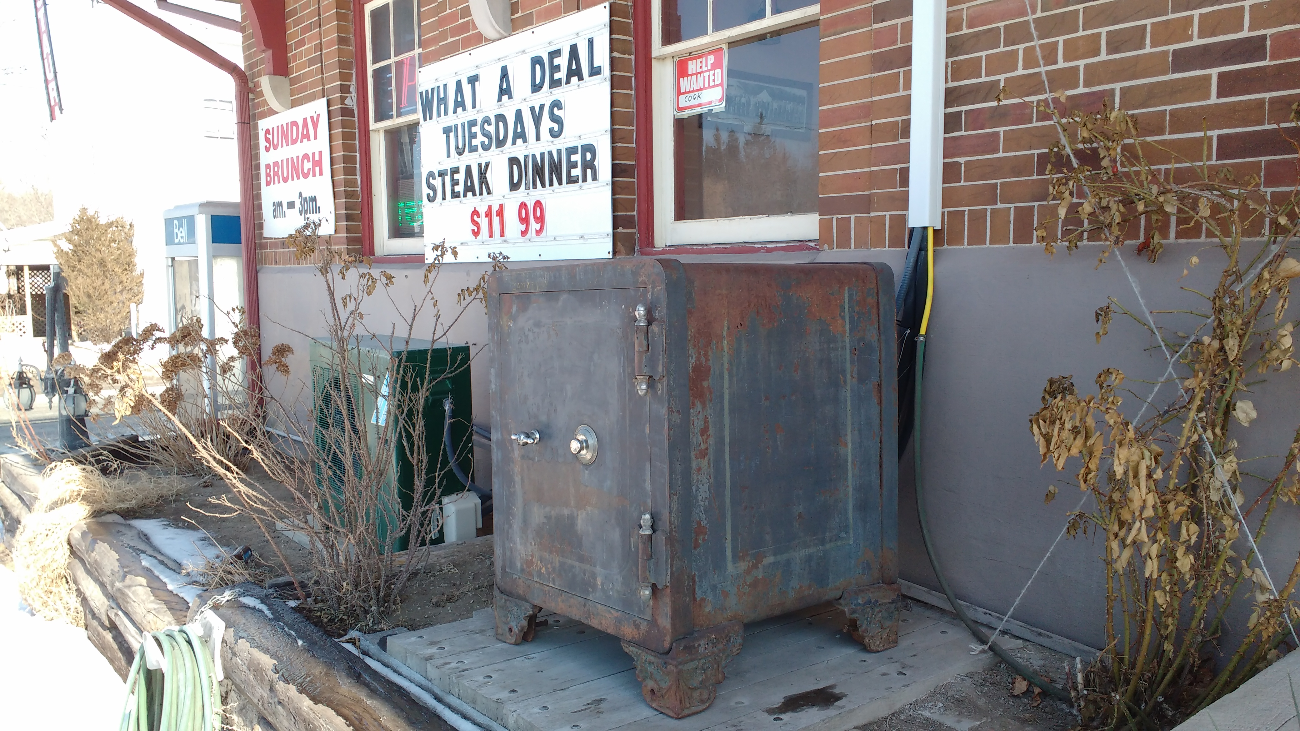 CP safe at Havelock